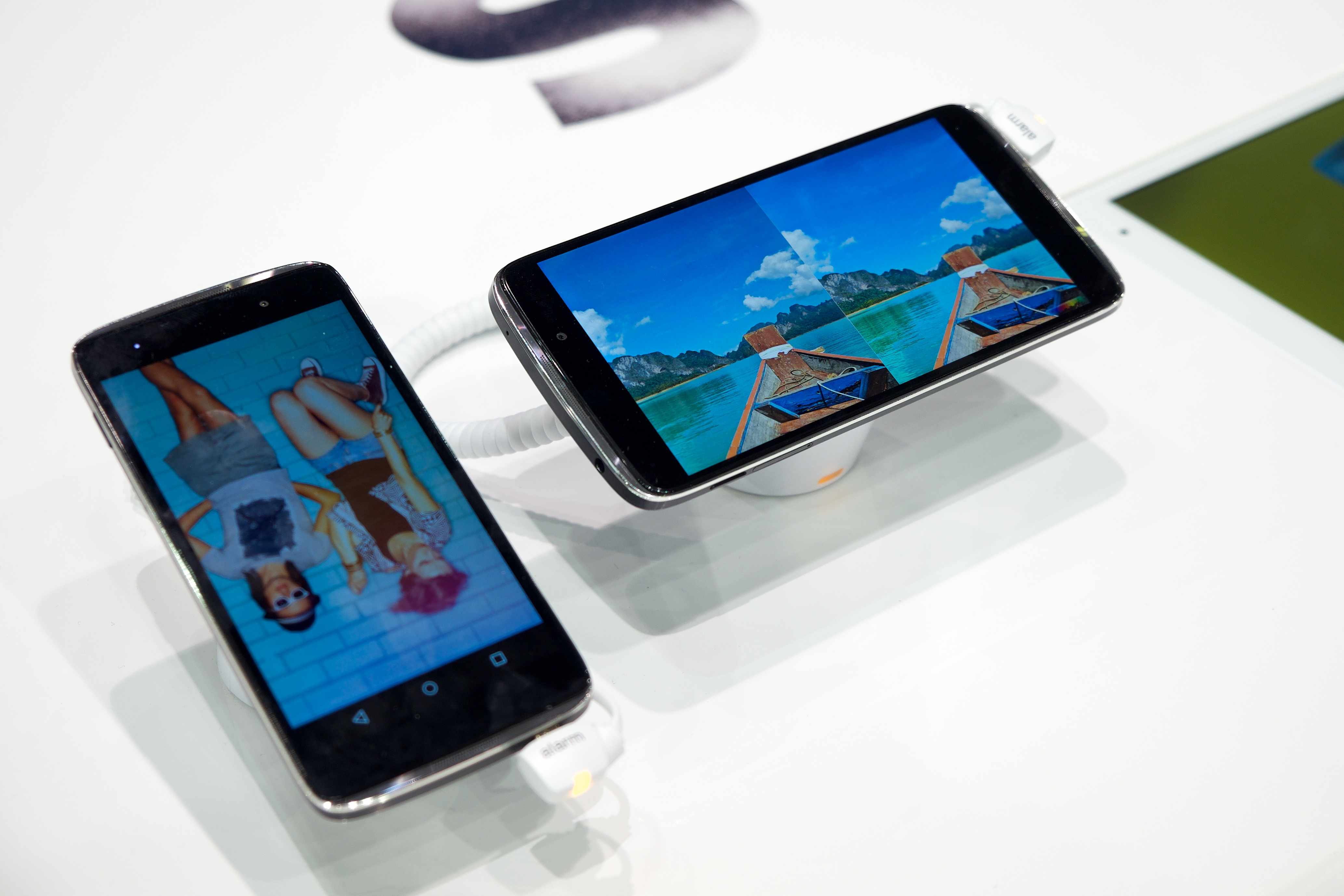 Alcatel Idol 3 smartphones at Mobile World Congress 2015 Barcelona